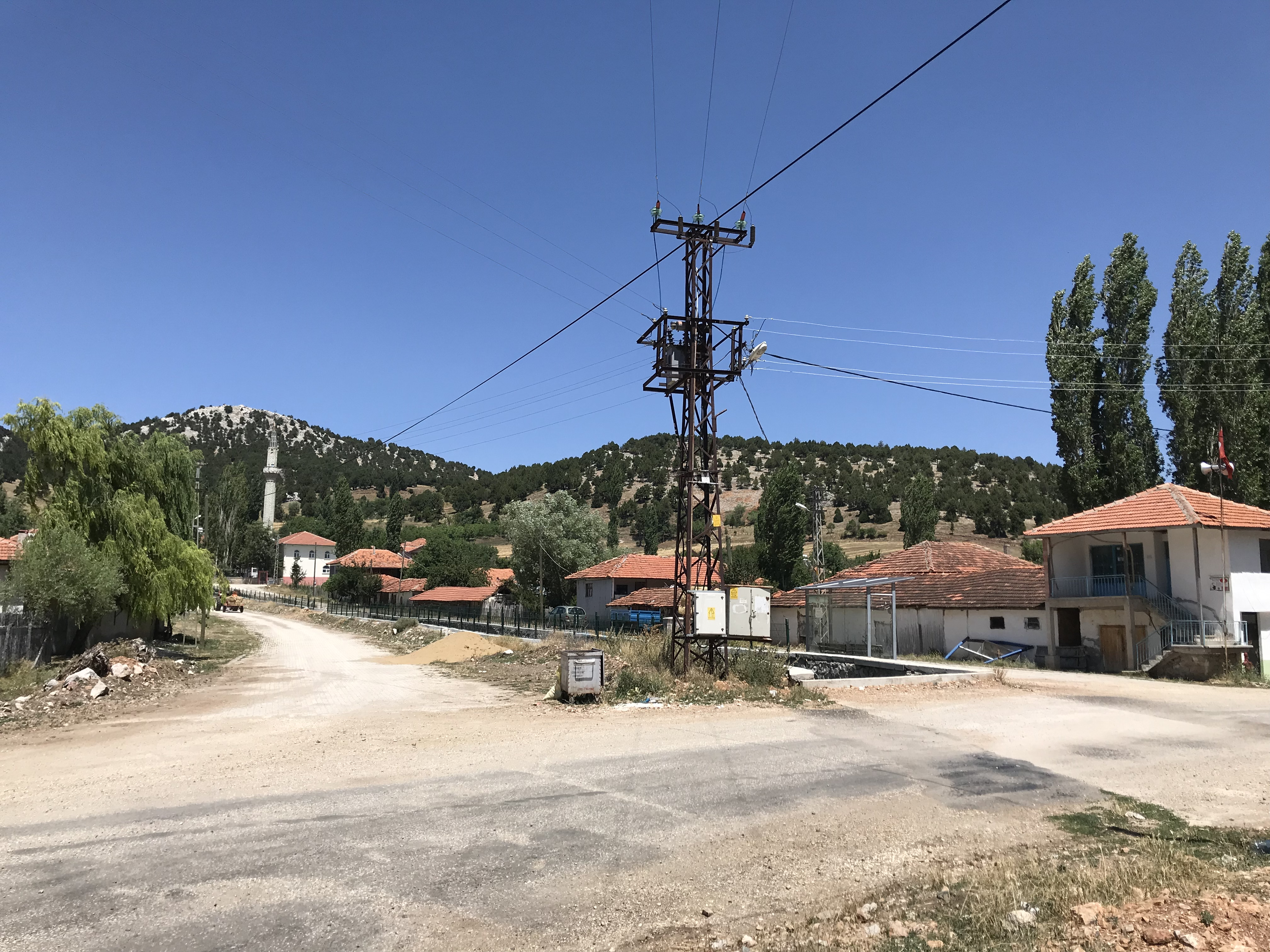 Central square of the village of Ulupınar (Burdur) taken on August 3, 2019 at 12:49. The picture represent the Ulupınar Mosque in the background on the left, and on the right at the foot of the flag, the building of the town hall also housing the agricultural cooperative.